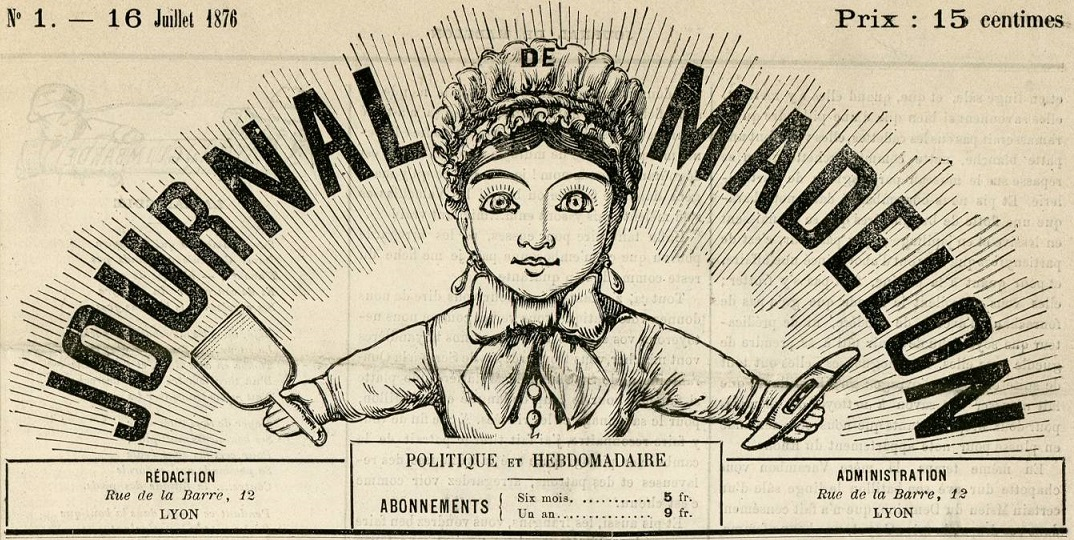 Front page of the magazine Journal de Madelon, Madelon being a character from the Guignol theatre in Lyon